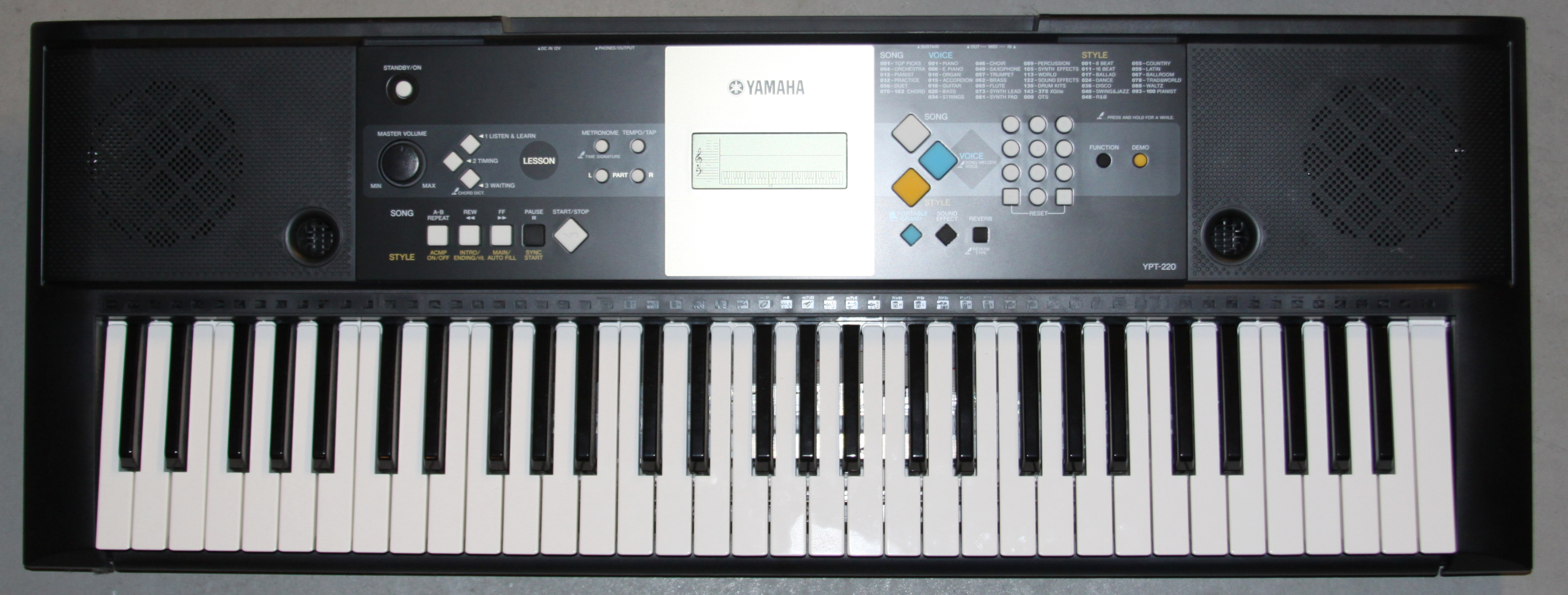 Yamaha YPT-220 keyboard (also called PSR-E223)